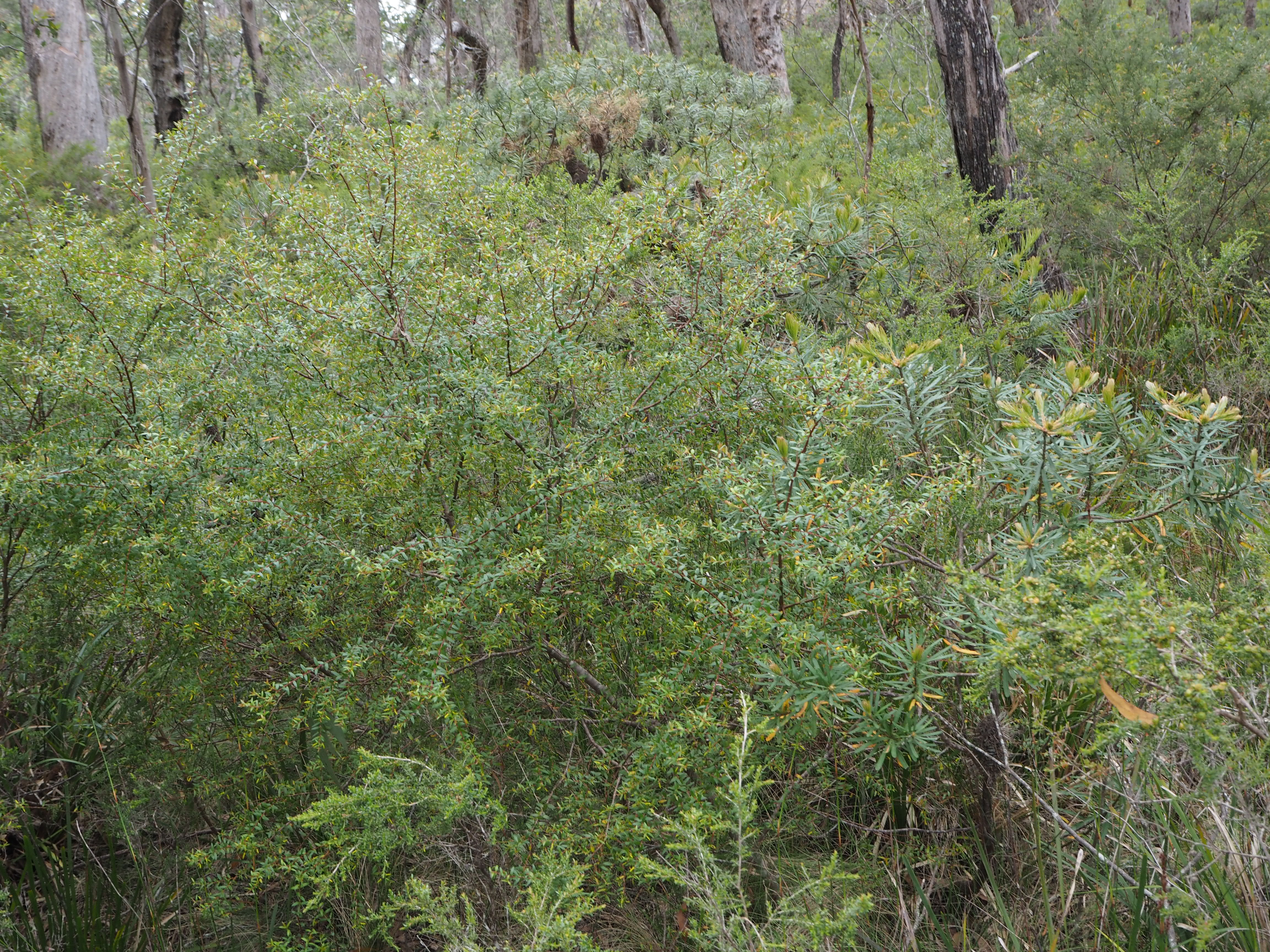 Persoonia acuminata habit in forest in Cathedral Rock National Park